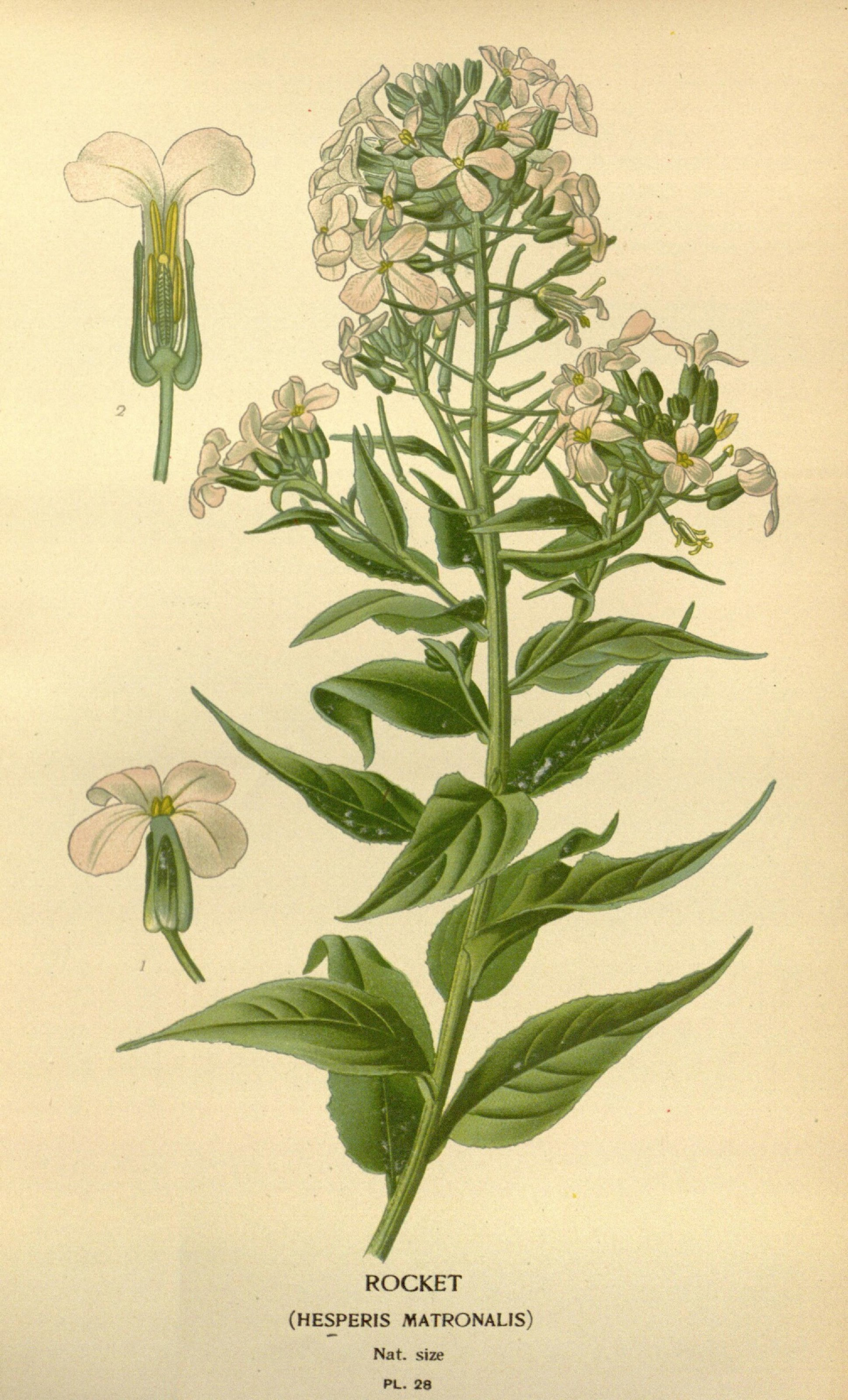 t (HESPERIS MATRONALIS)